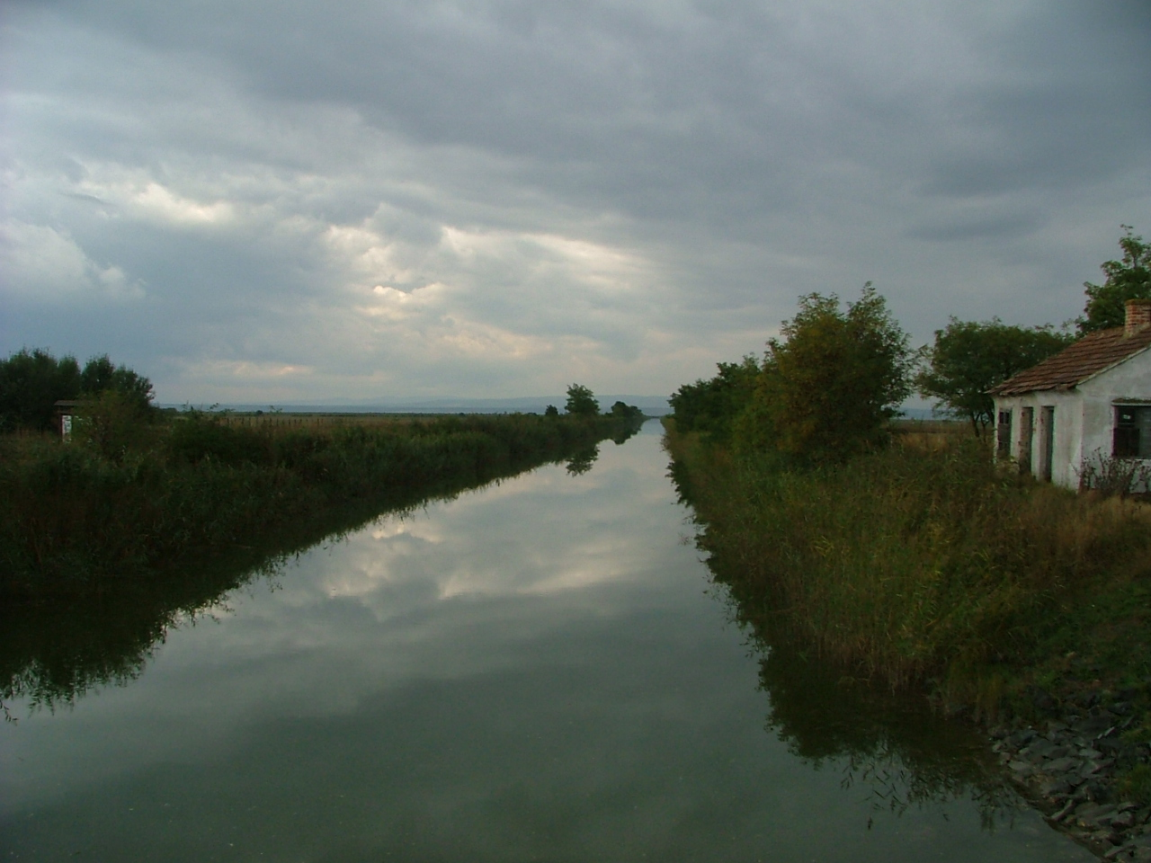 The Hanság main channel in Sarród